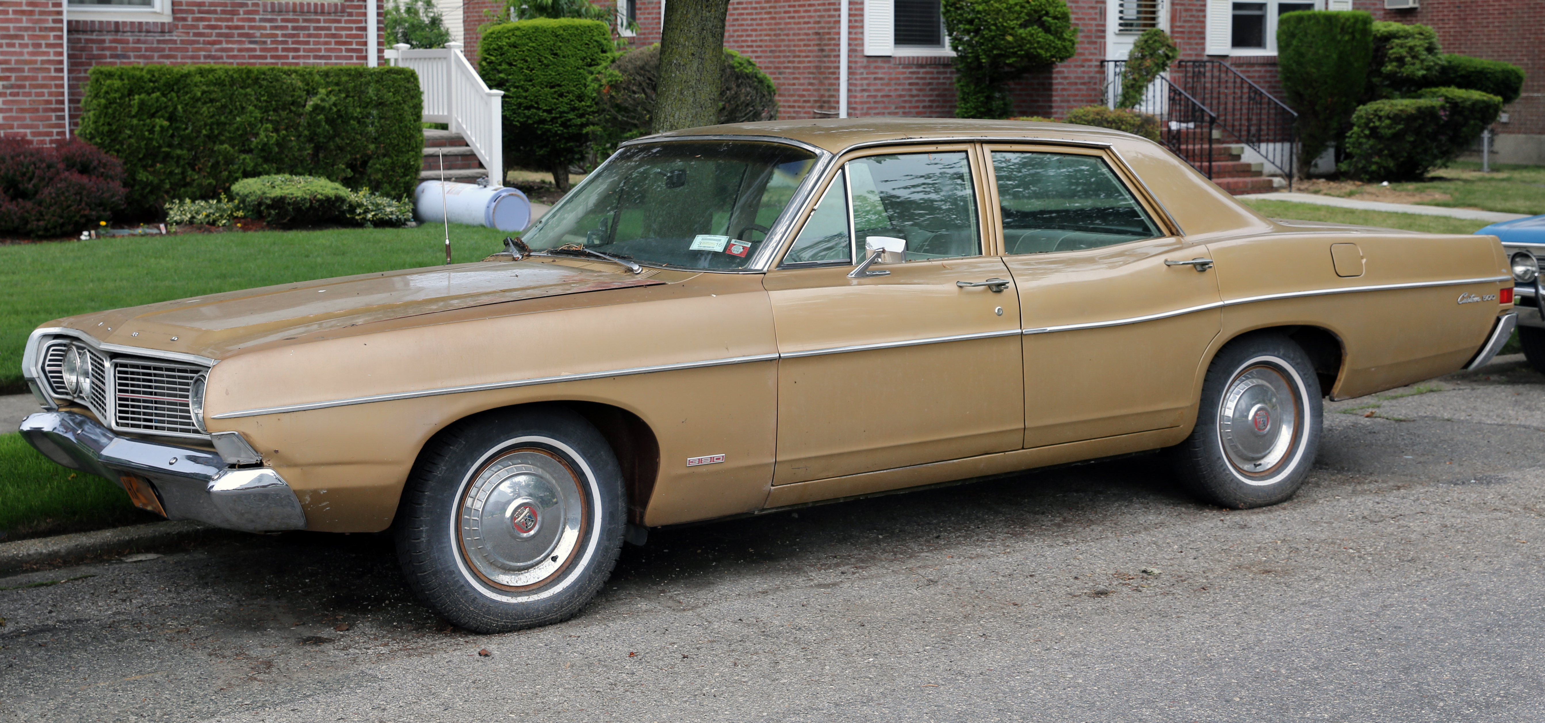 A 1968 Ford Custom 500 four-door sedan, with the two-barrel 390ci V8 with 265hp (SAE Gross). Assembled in Los Angeles, CA.